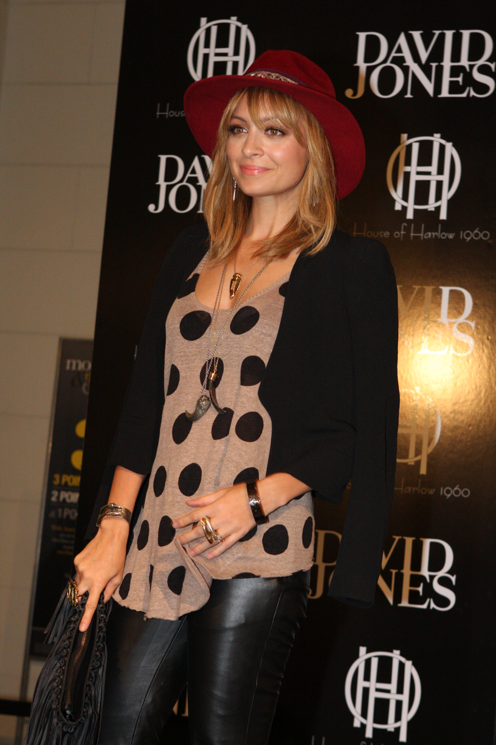 Nicole Richie launches her House of Harlow at David Jones' Sydney store